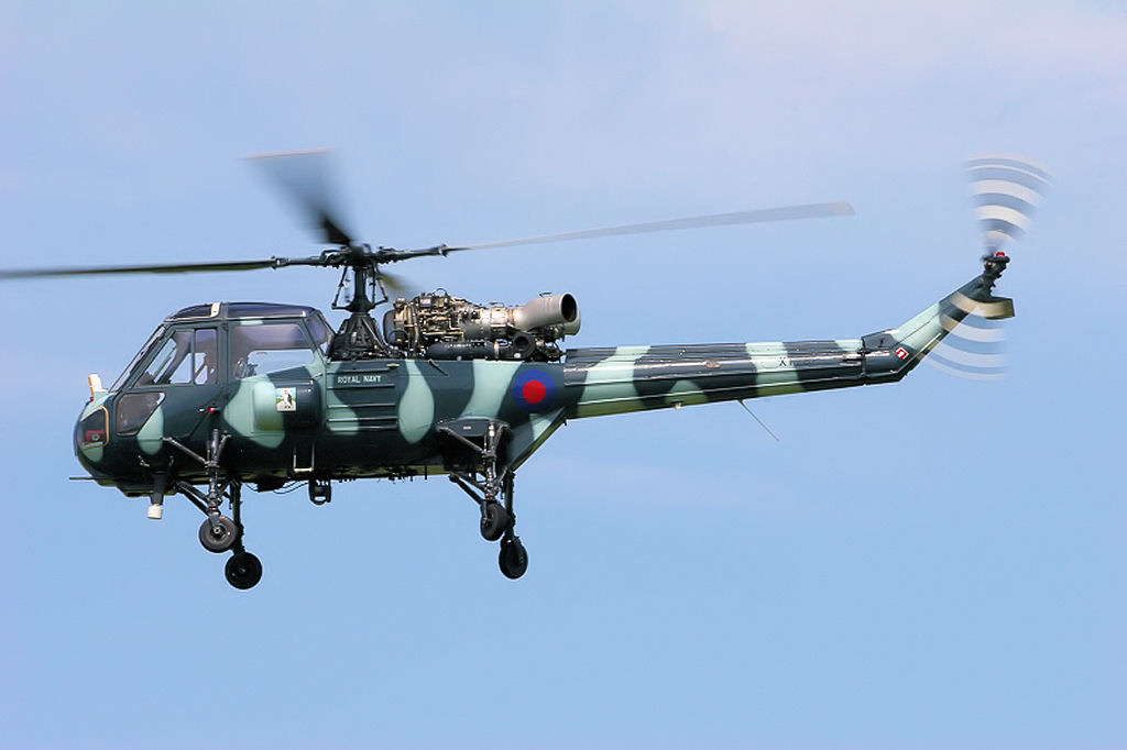 Wasp - Culdrose 2007